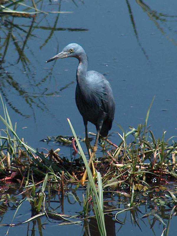 Slaty Egret